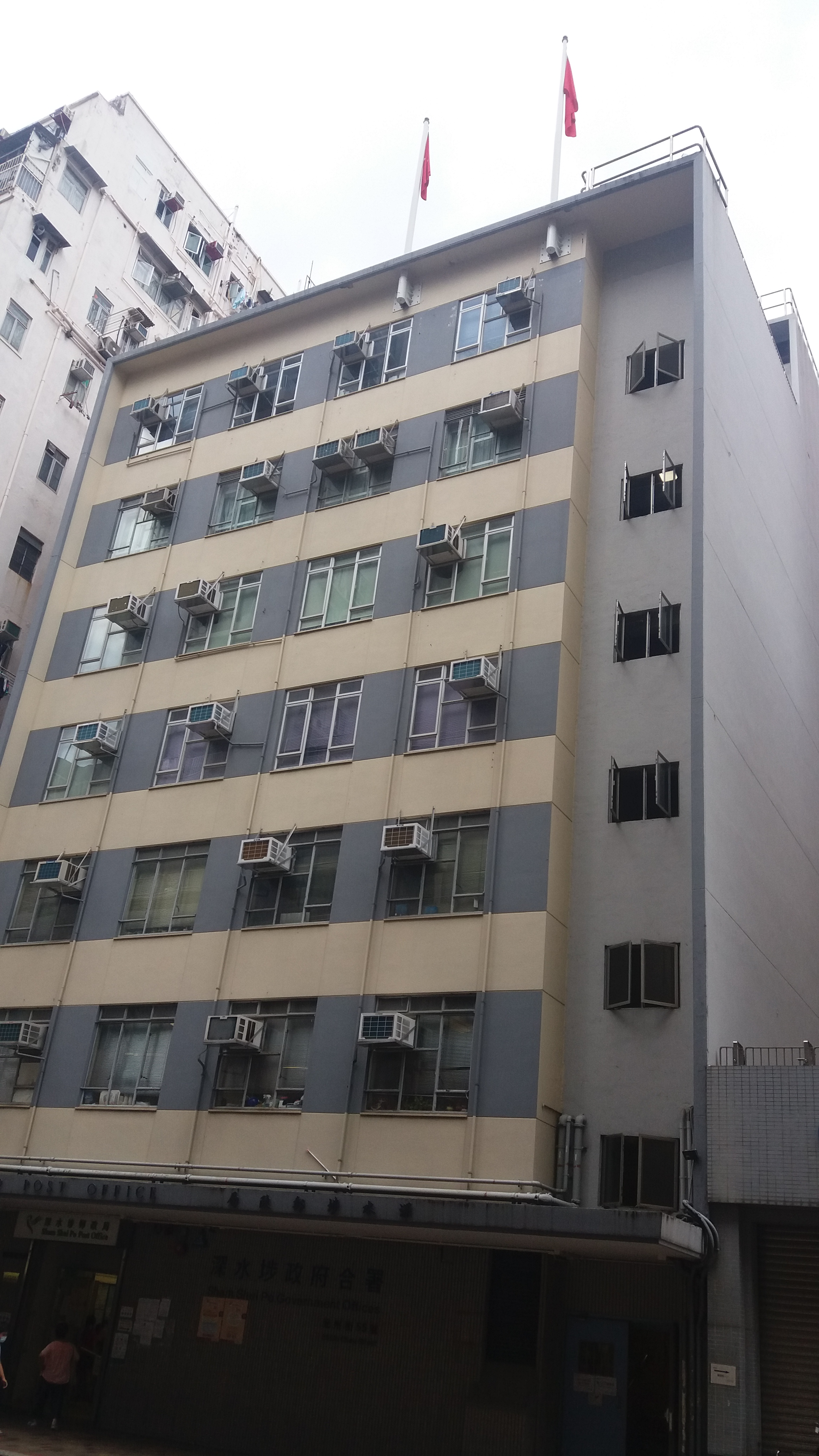 Sham Shui Po Government Offices (July 2020)